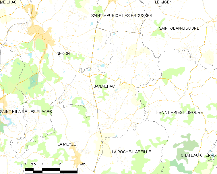 Map of French municipality Janailhac